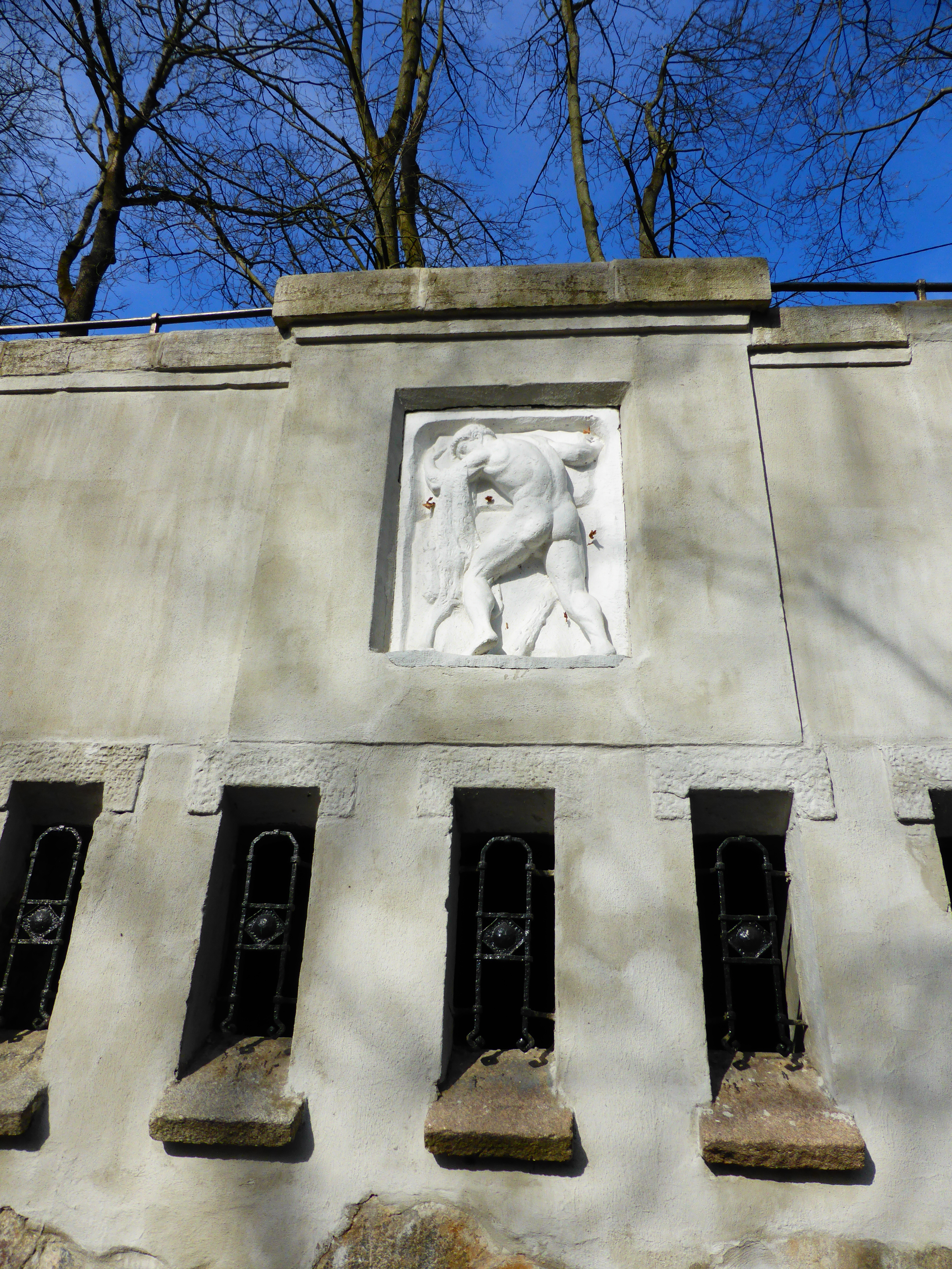 The relief of Hercules